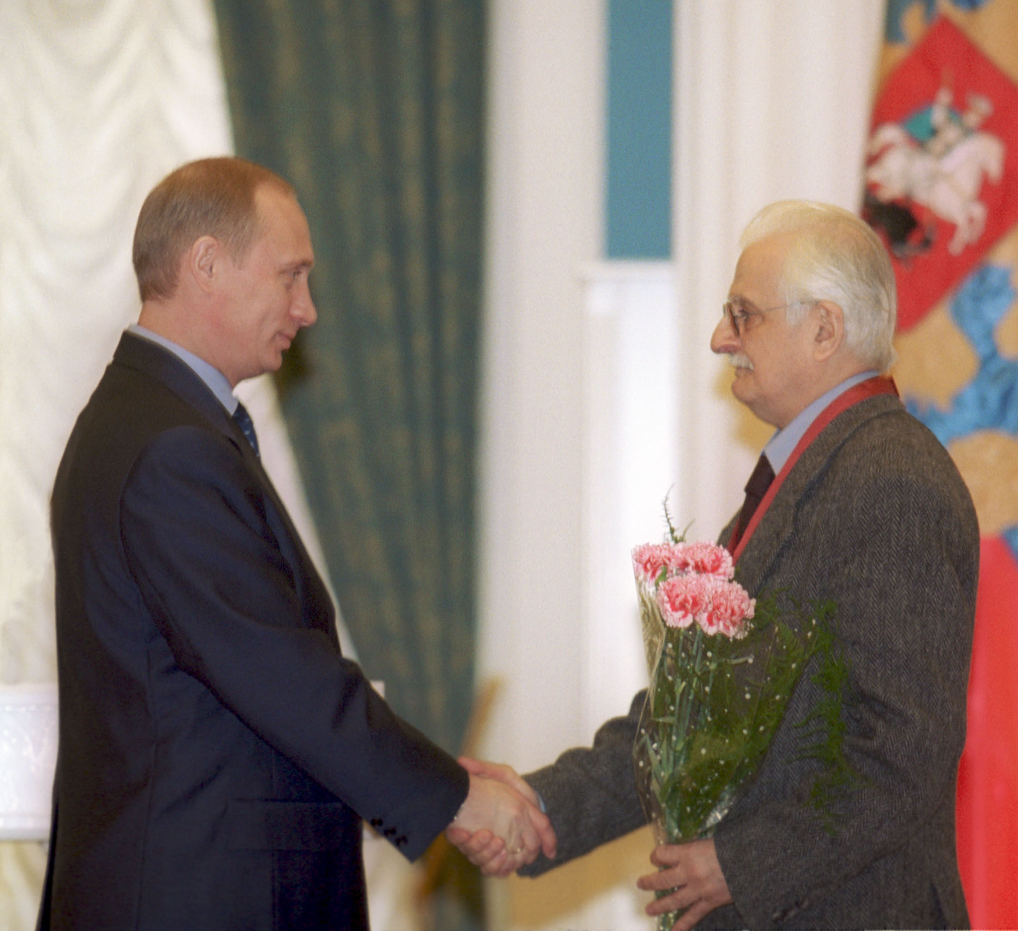 THE KREMLIN, MOSCOW. Russian filmmaker Marlen Khutsiyev being decorated with the order for Services to the Fatherland, 3rd class, at a state awards ceremony.